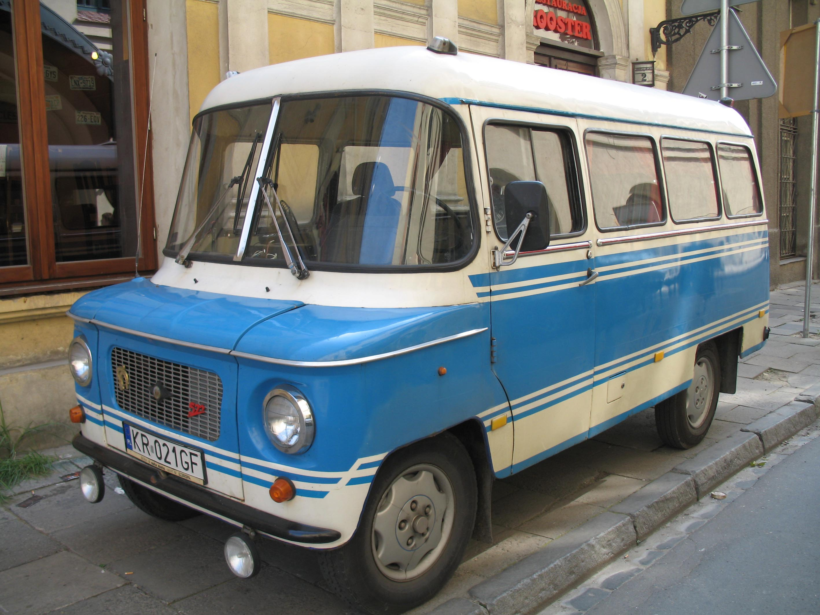 Nysa 522 in Kraków, Poland. Jagiellońska street.